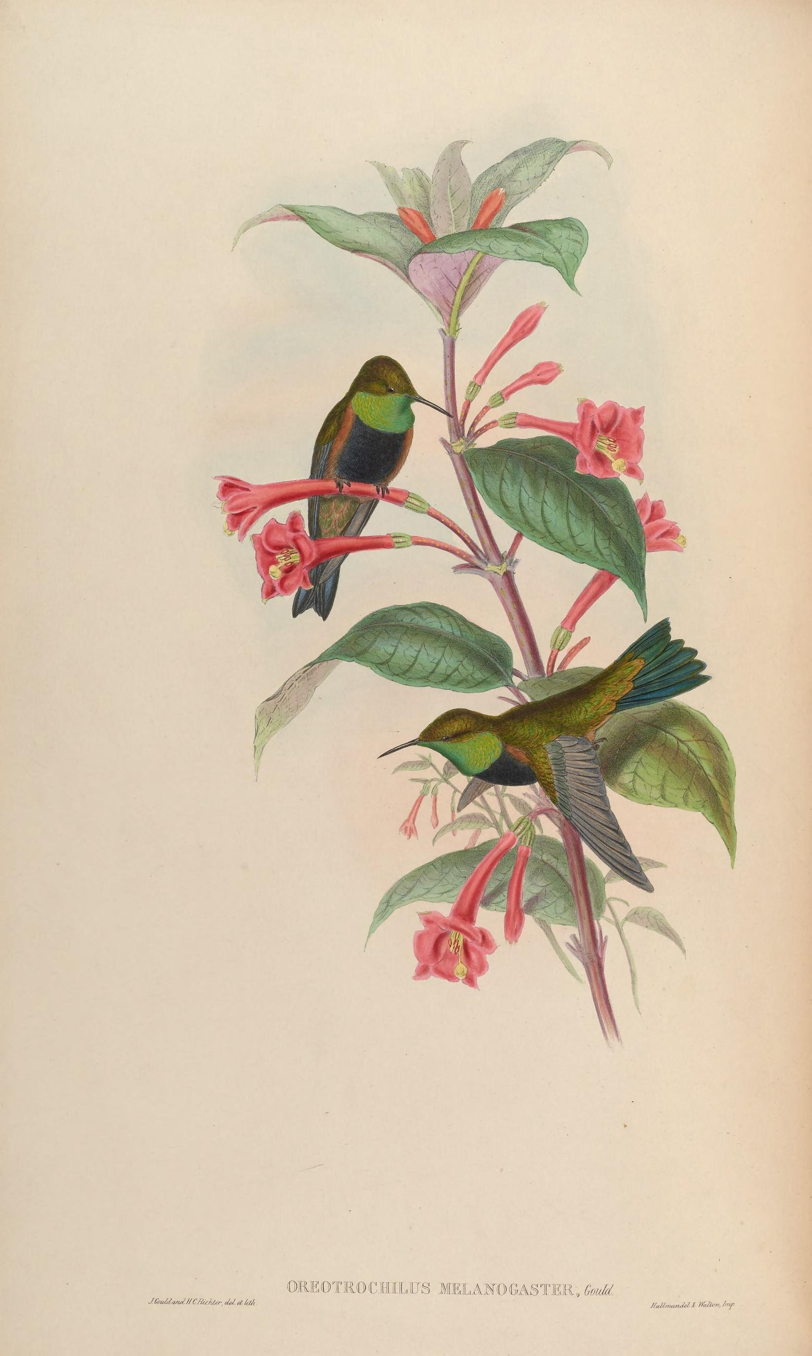 K JCoa/d/x^ /^/ C./icchic/\ dd et f^dJi lIIILmS MELAFO GAS TIER, ^^«^ JfuMm^uhM I WoT^n, /^?f